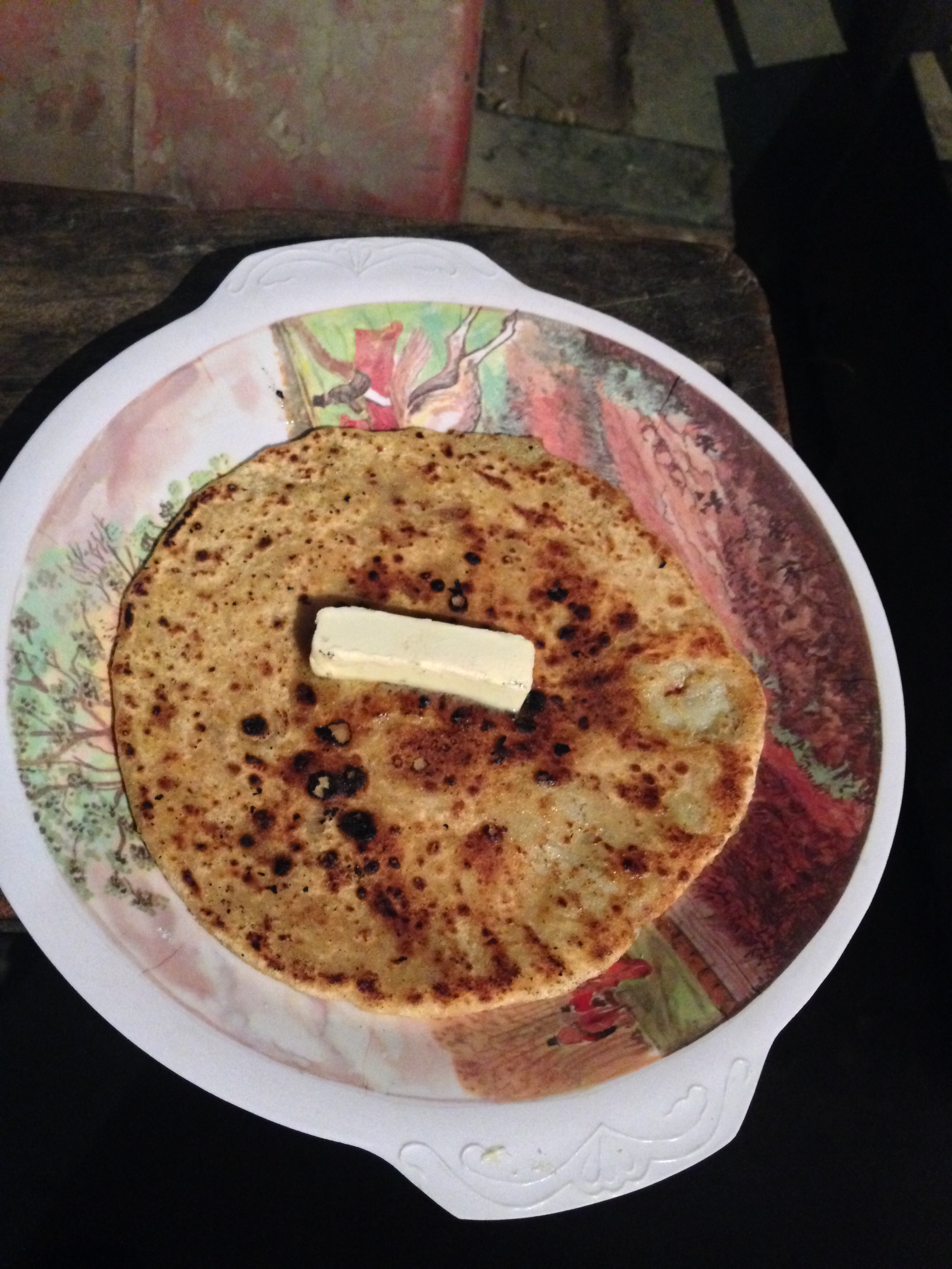 Aaloo Prantha is a staple food in Northern India mostly ate in Indian States of Punjab and Haryana and Union territory of New Delhi. Served mostly as breakfast and lunch.